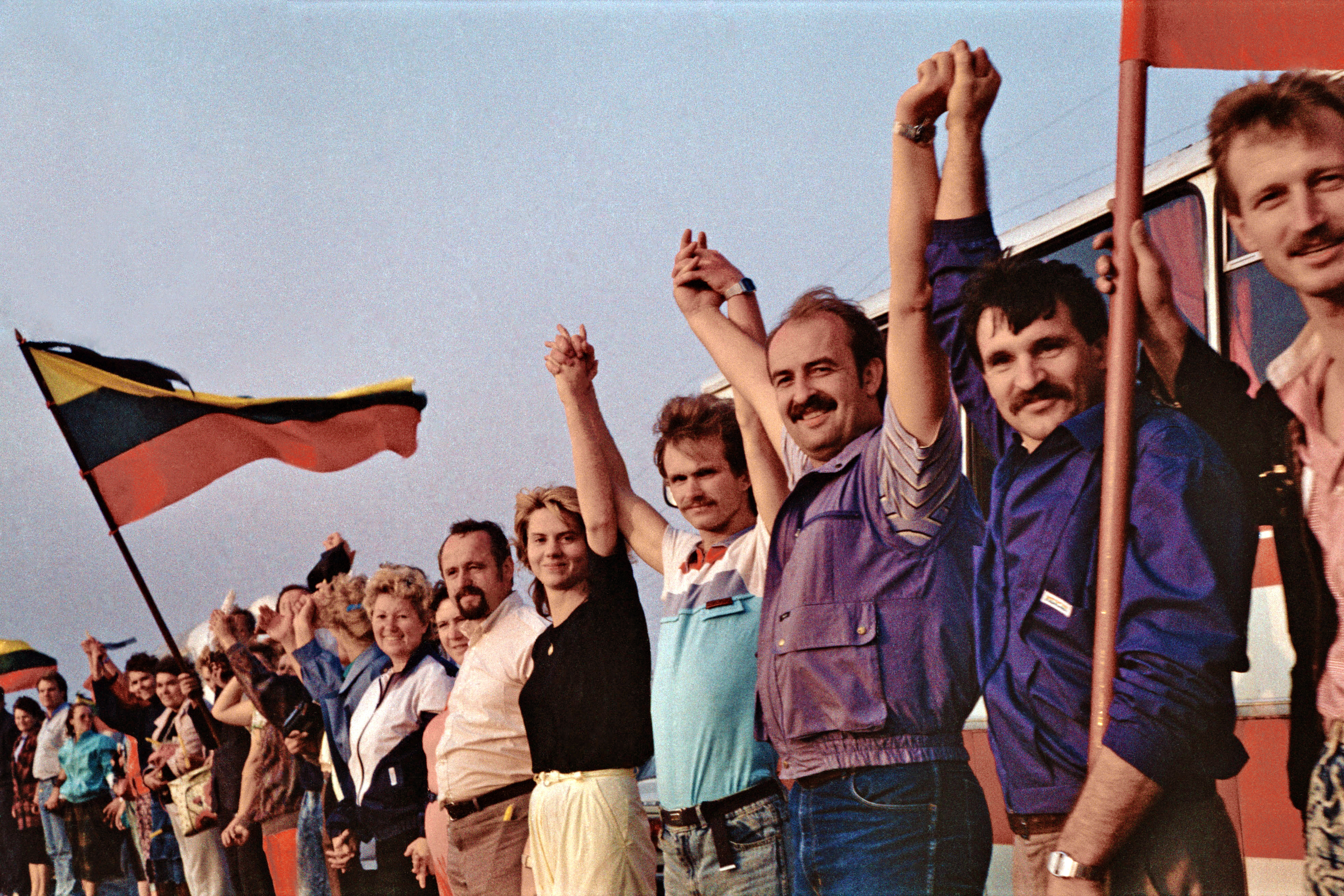 Baltic Way.